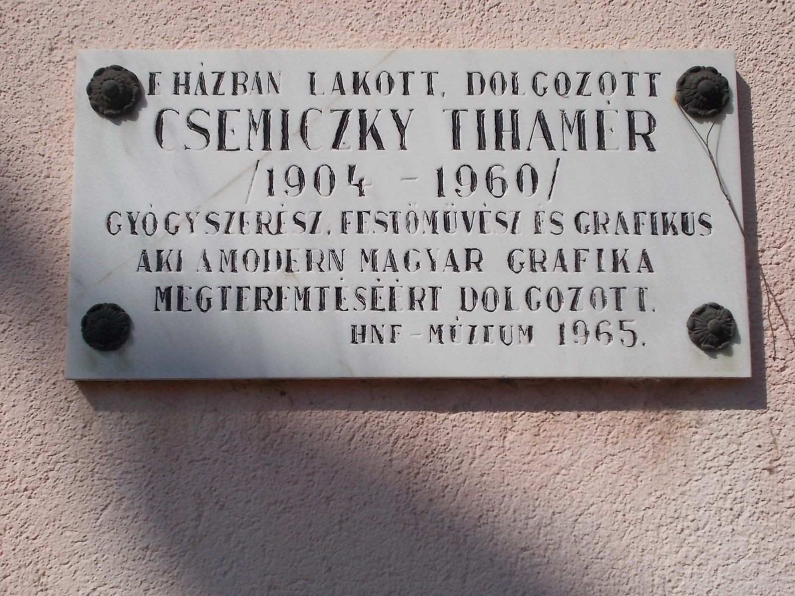 Plaque of Tihamér Csemiczky on the wall of the listed pharmacy. - 12 Kossuth Square, Szolnoki út, Route 40, Abony, Pest County, Hungary.